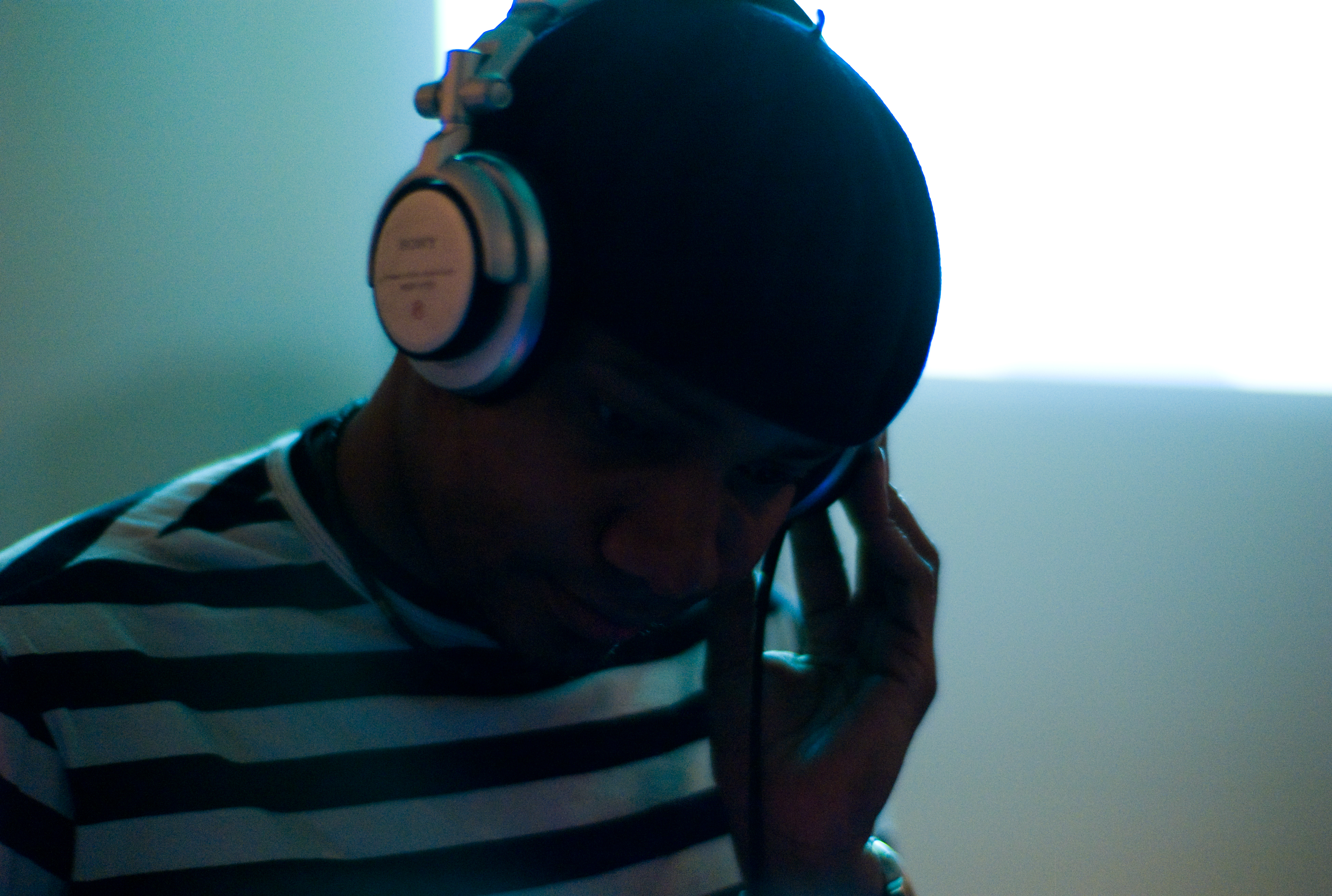 DJ Spooky